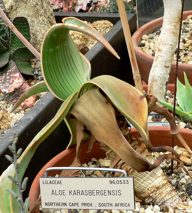 Photo of Aloe karasbergensis at the University of California Botanical Garden